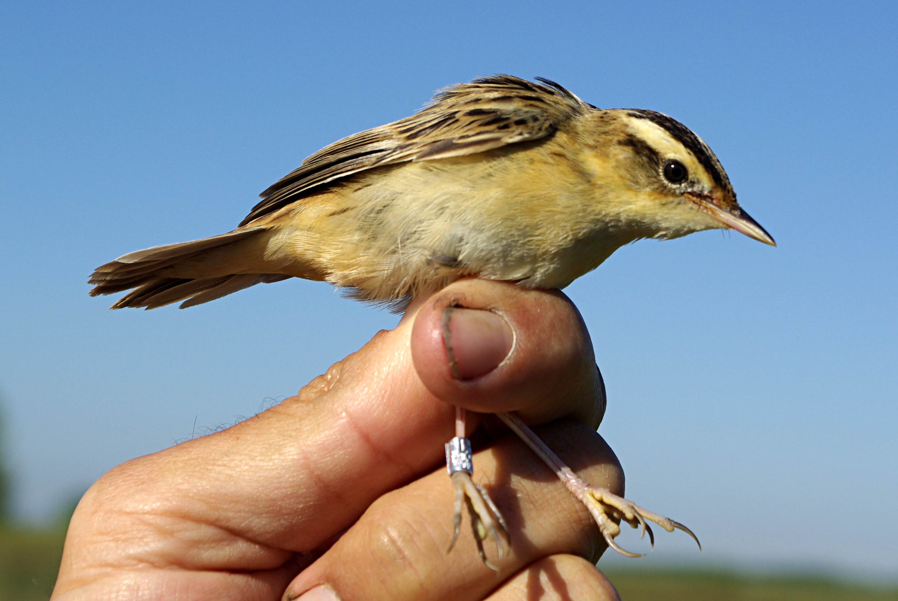 Aquatic Warbler (Acrocephalus paludicola) ringed in Zambroncinos del Páramo lagoon (León, Spain)